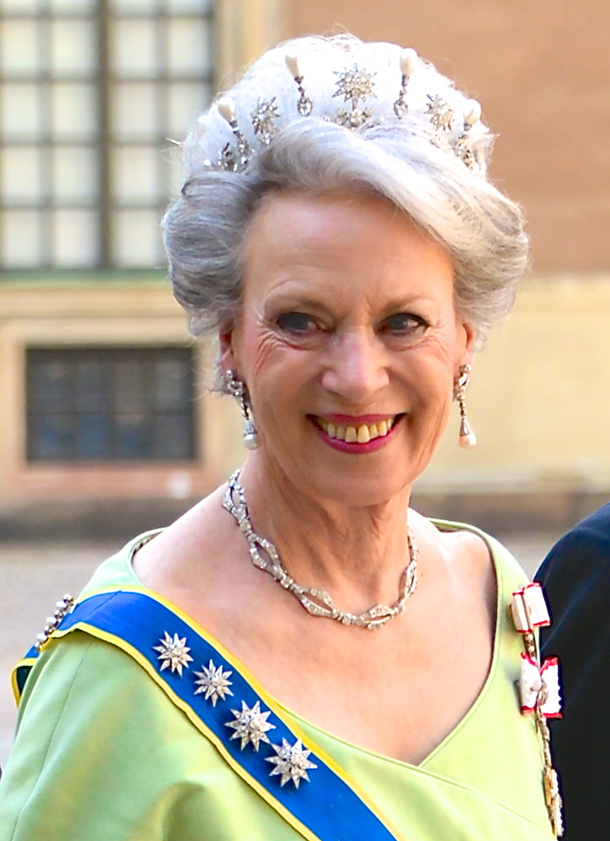 Princess Benedikte of Denmark on the way to the castle church at the Royal Palace in Stockholm before the wedding between Princess Madeleine and Christopher O'Neill June 8, 2013.